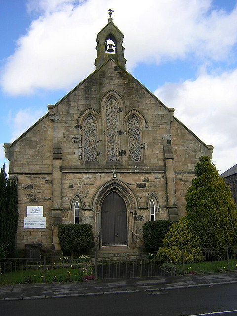 Glenboig Parish Church